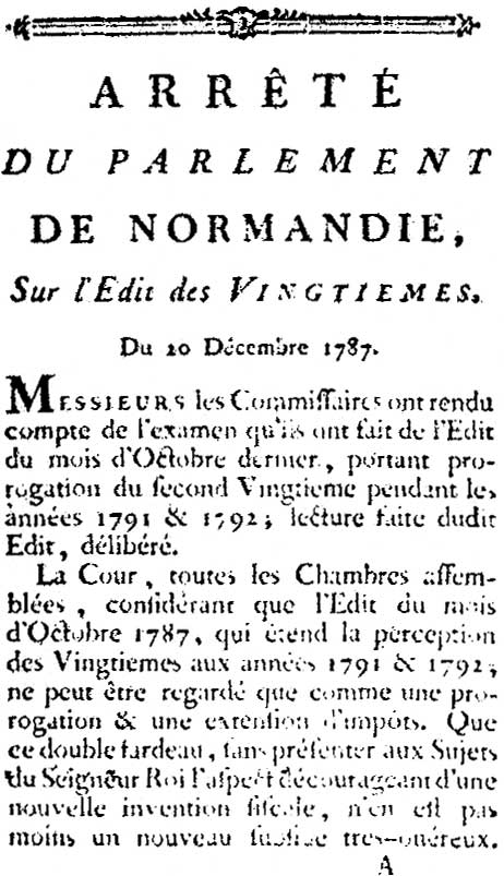 A writ of the Parliament of Normandy, 1787